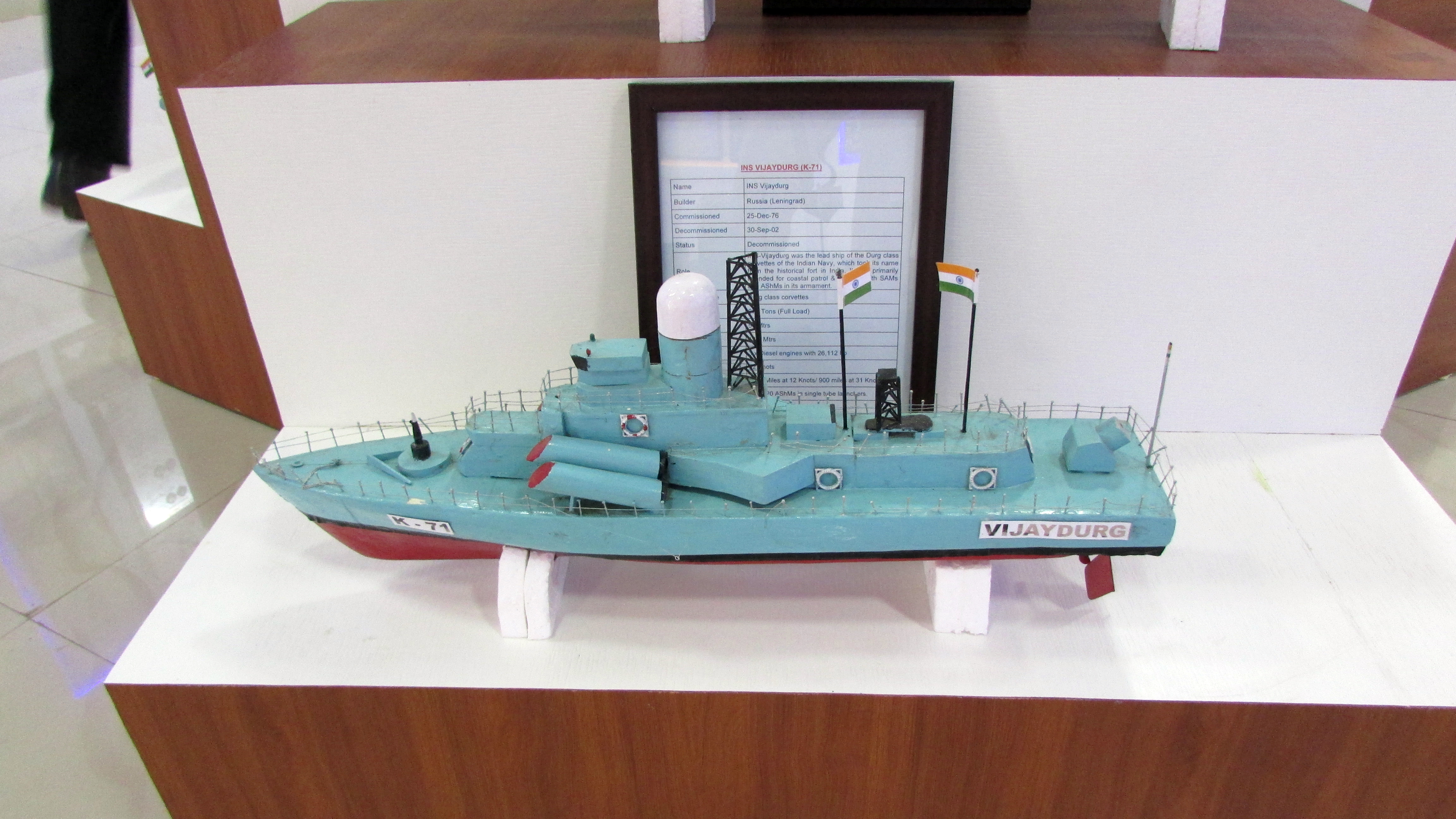 Yoddhasthal Permanent Exhibition Southern command Indian Army Bhopal